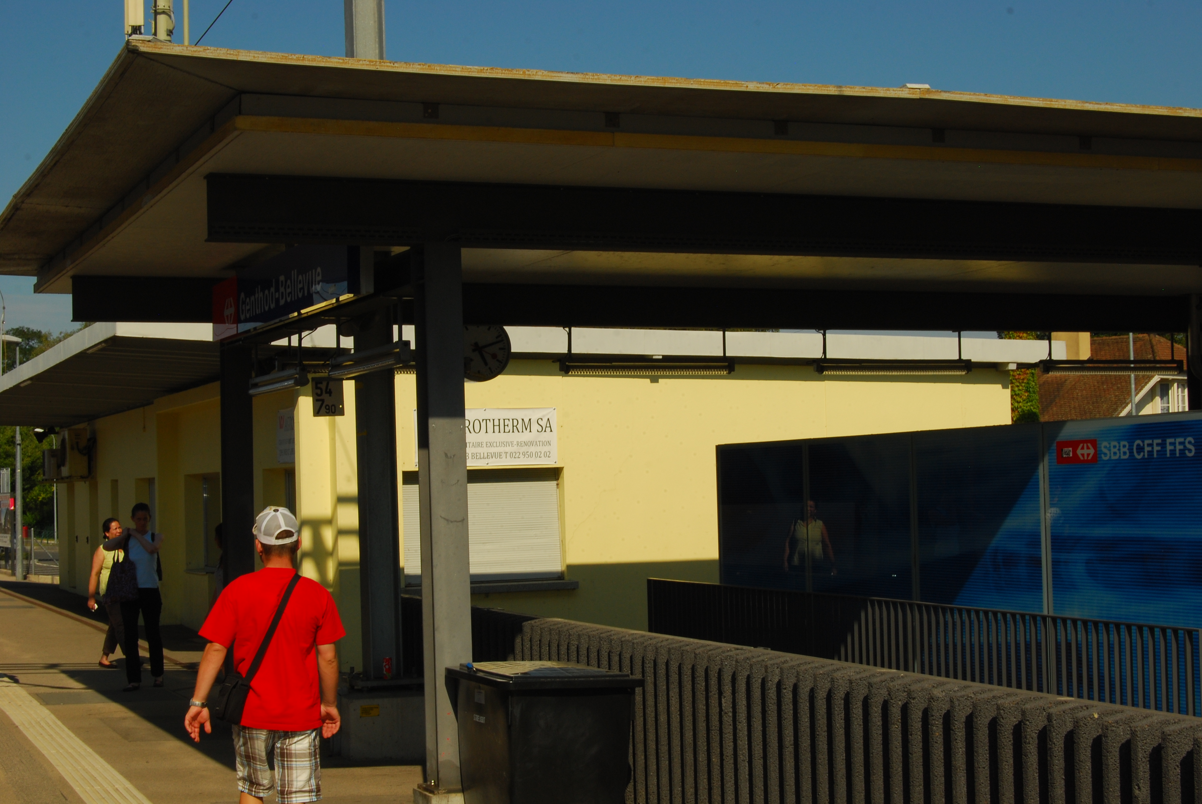 Genthod, canton of Geneva, SwitzerlandEsperanto: Genthod, Kantono Ĝenevo, Svislando